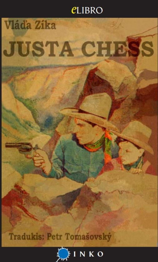 A cover of the Justa Chess E-book.